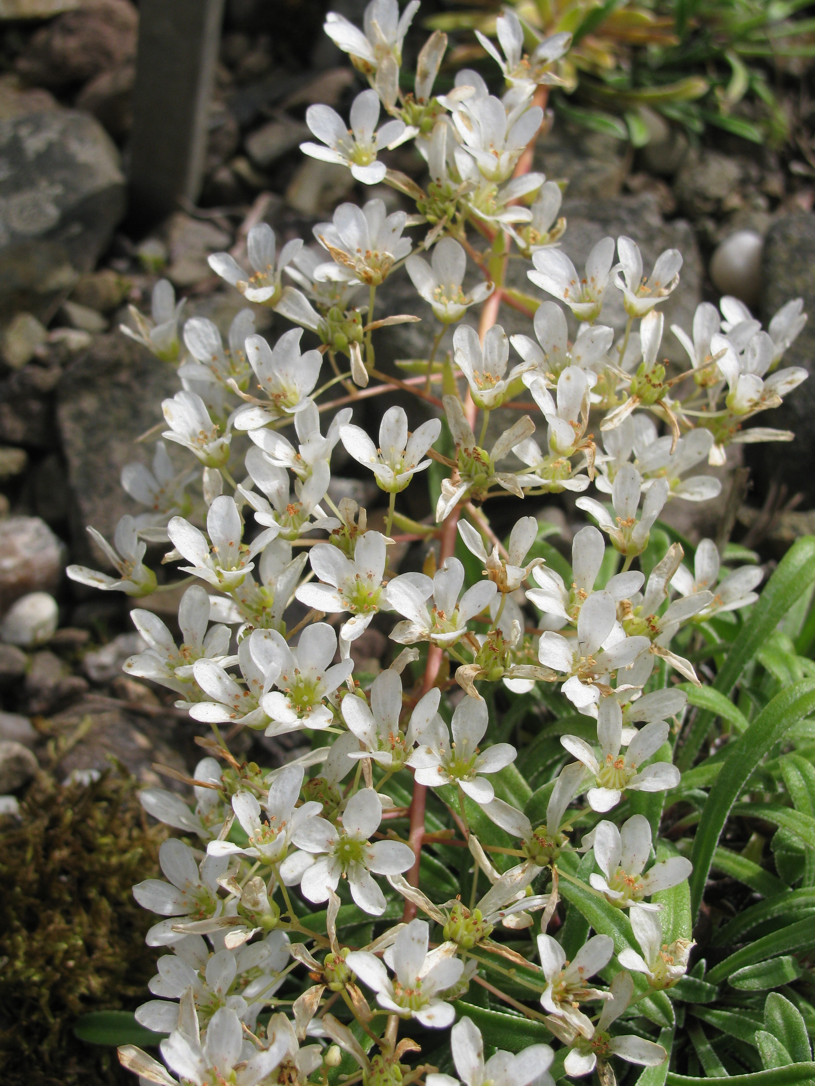 Saxifraga callosa ssp. callosa Royal Botanic Garden Edinburgh: Accession number 2005.1273 B